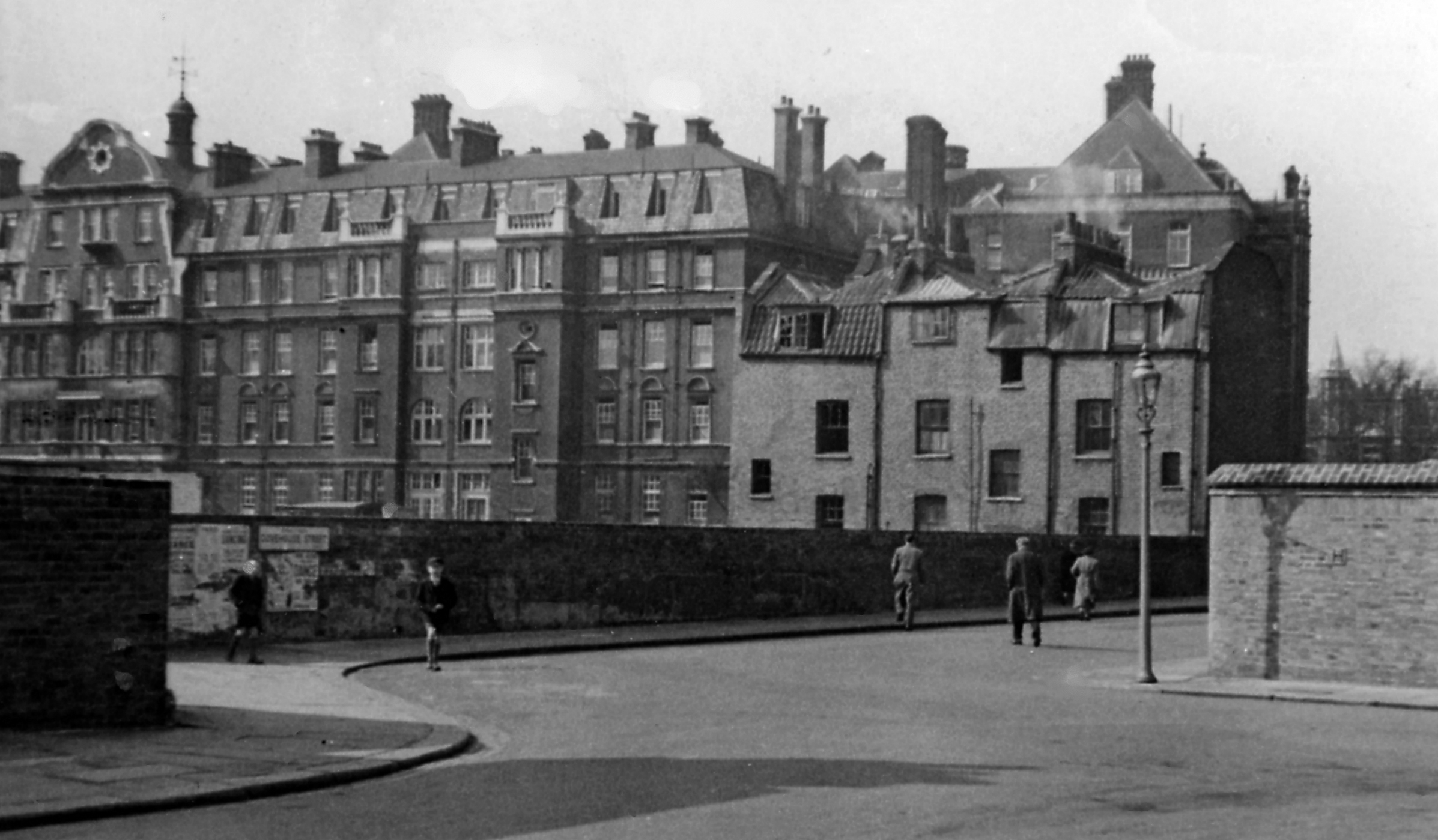 Chelsea: on Dovehouse Street at Cale Street, 1955. View NW to the back of the Royal Brompton Hospital: as streets were before re-development.